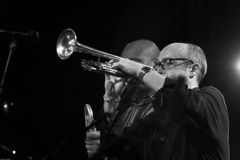 Dave Douglas at the North Sea Jazz Festival 2007.